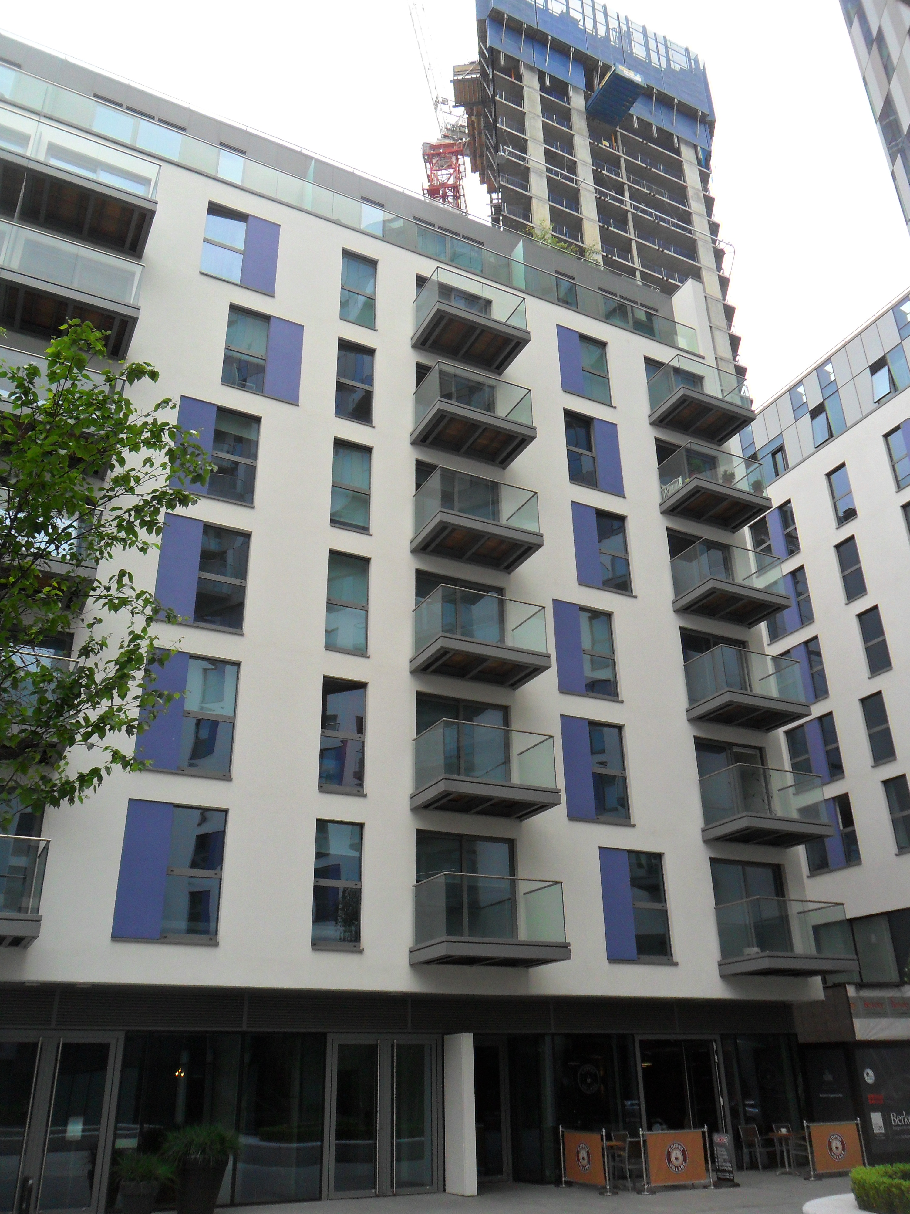 Saffron Square, Wellesley Road, Croydon, a development by Berkeley Homes